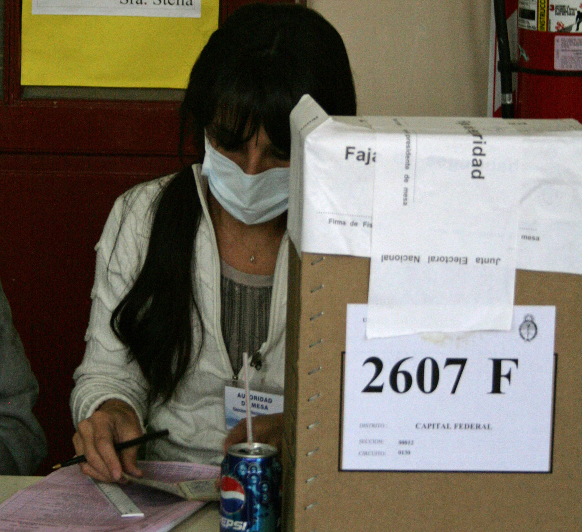 Argentina. Flu pandemy (H1N1) during 28-06-2009 elections. Election official is using protection mask.